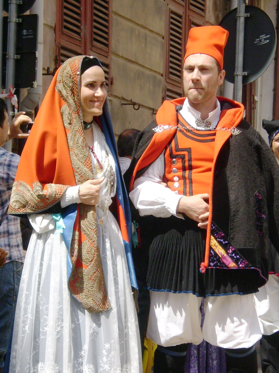 Folk costumes of Cagliari